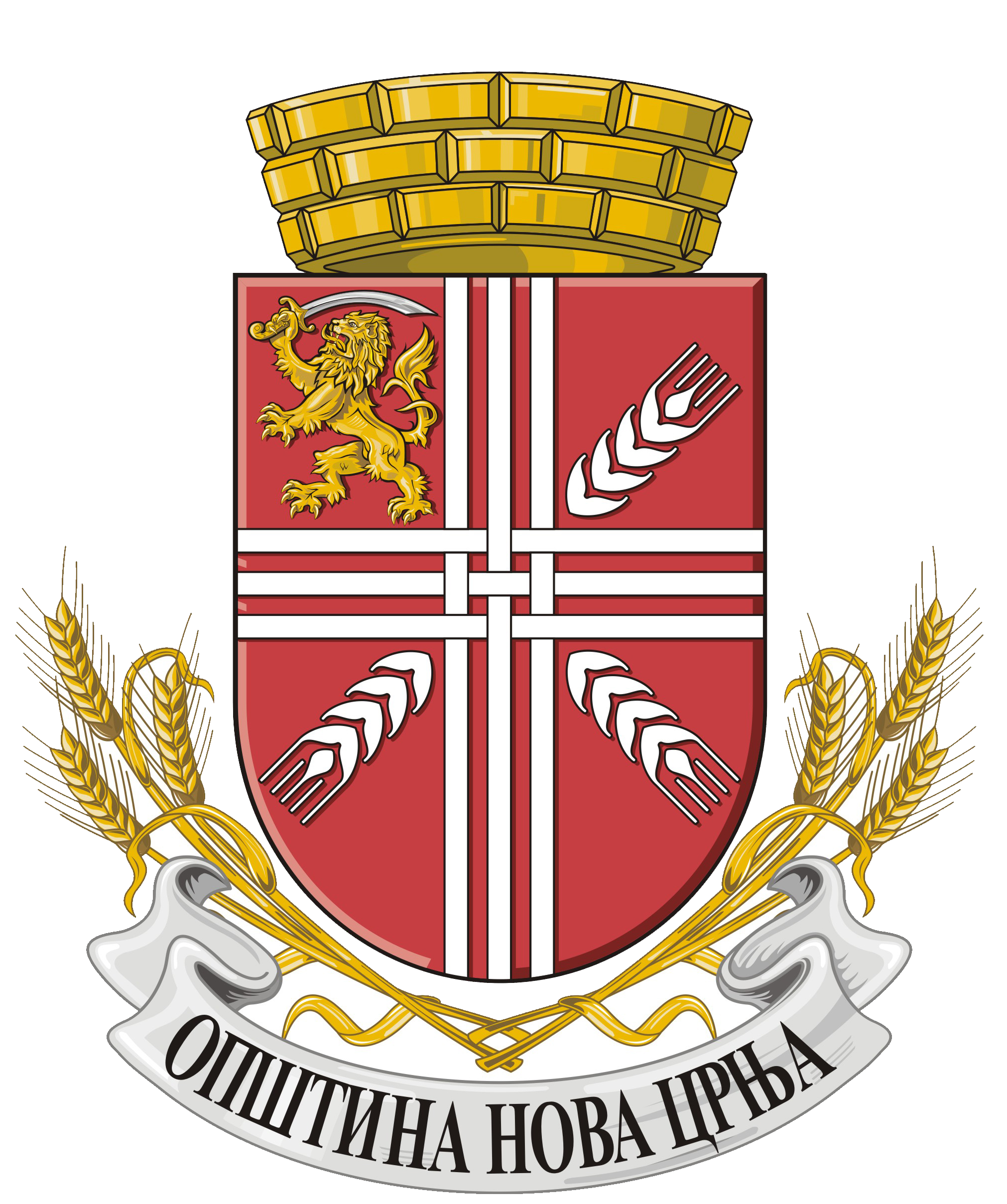 Coat of Arms of the municipality of Nova Crnja